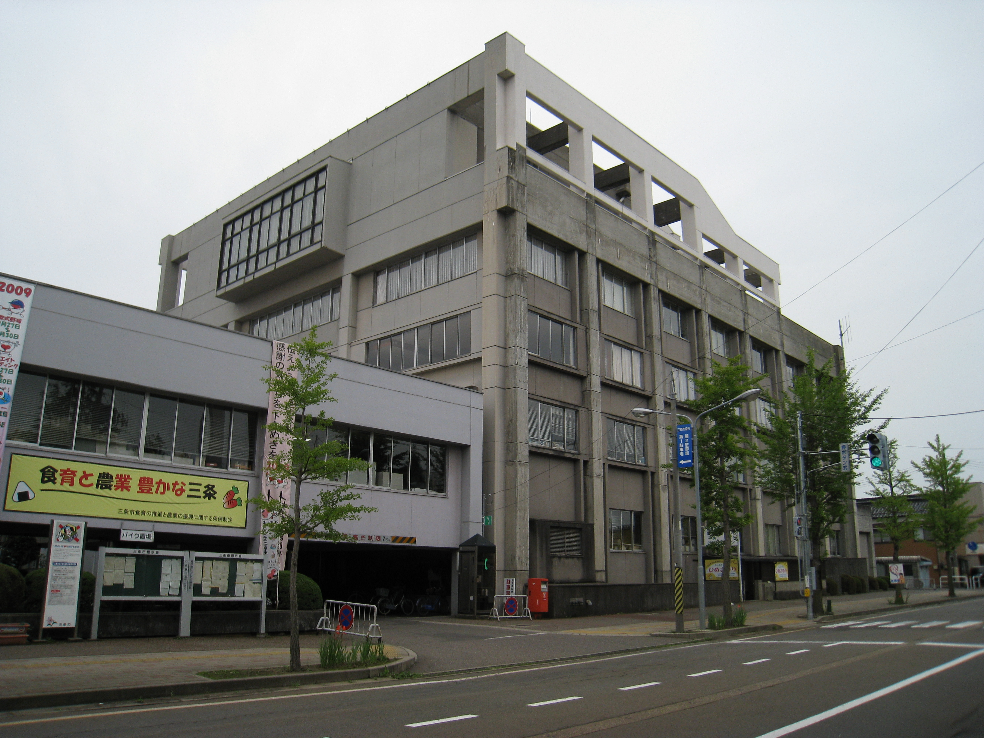 Sanjo-CityHall.Niigata-Pref,Japan